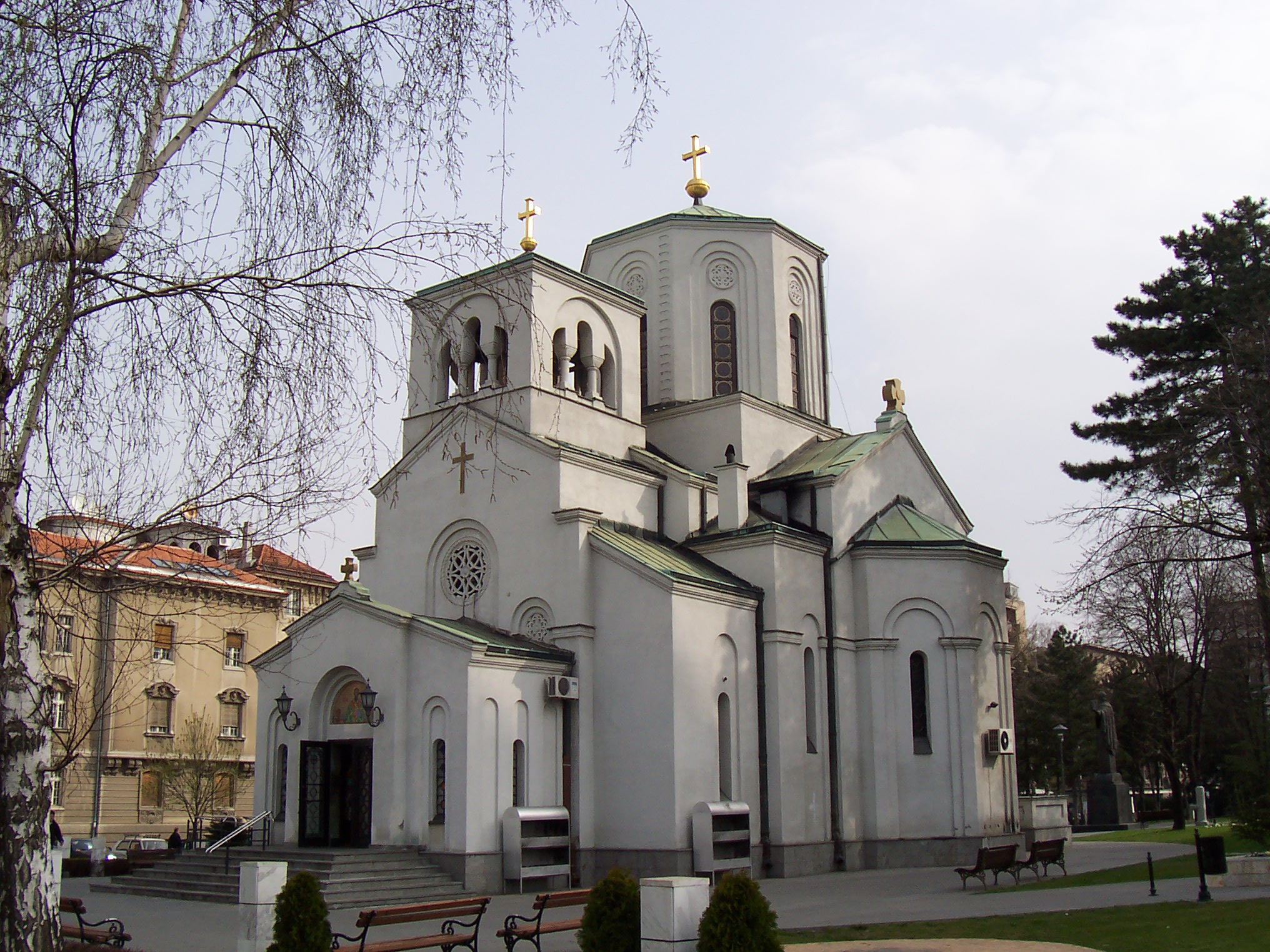 Church of Saint Sava, located right to the Temple of Saint Sava.